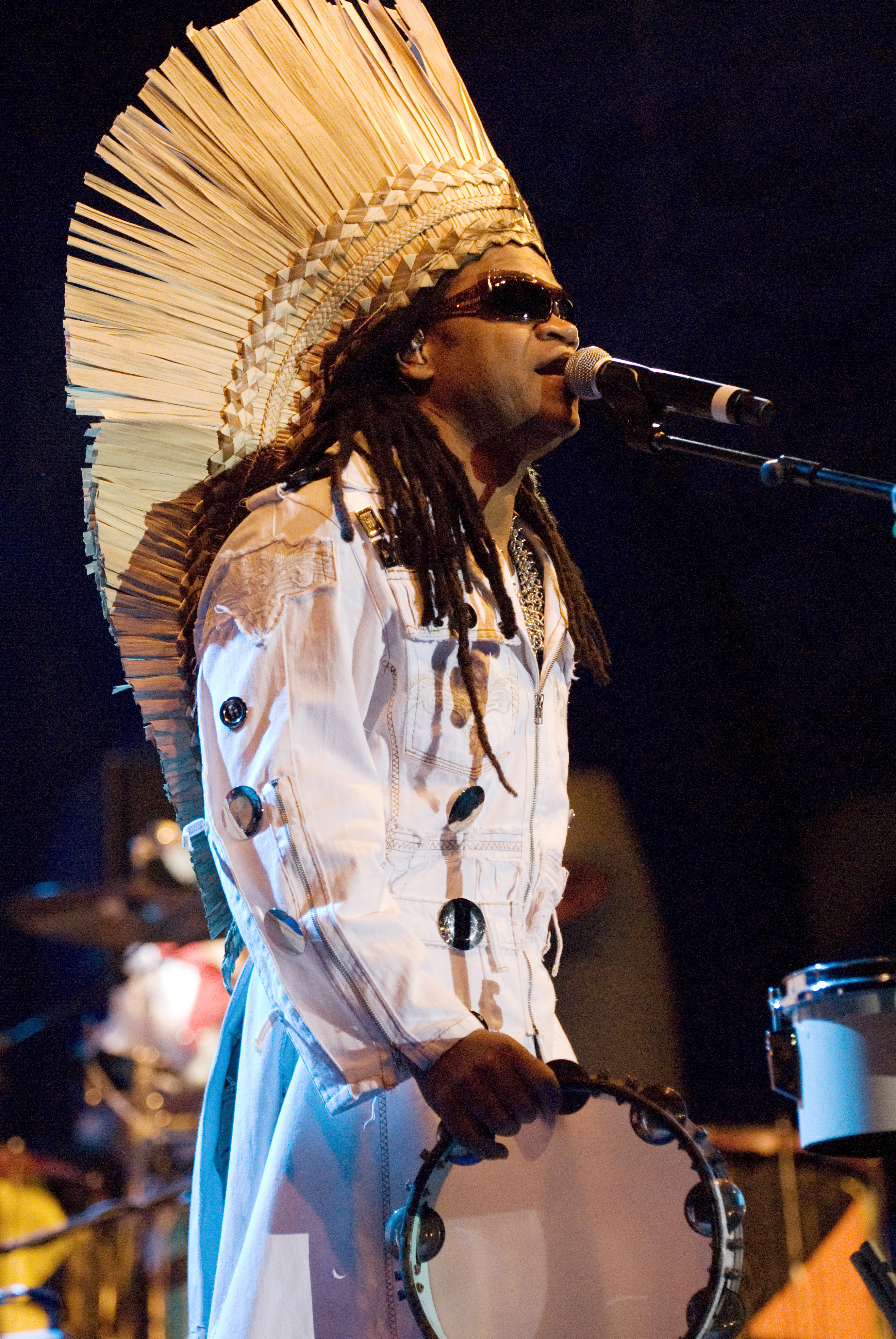 Carlinhos Brown